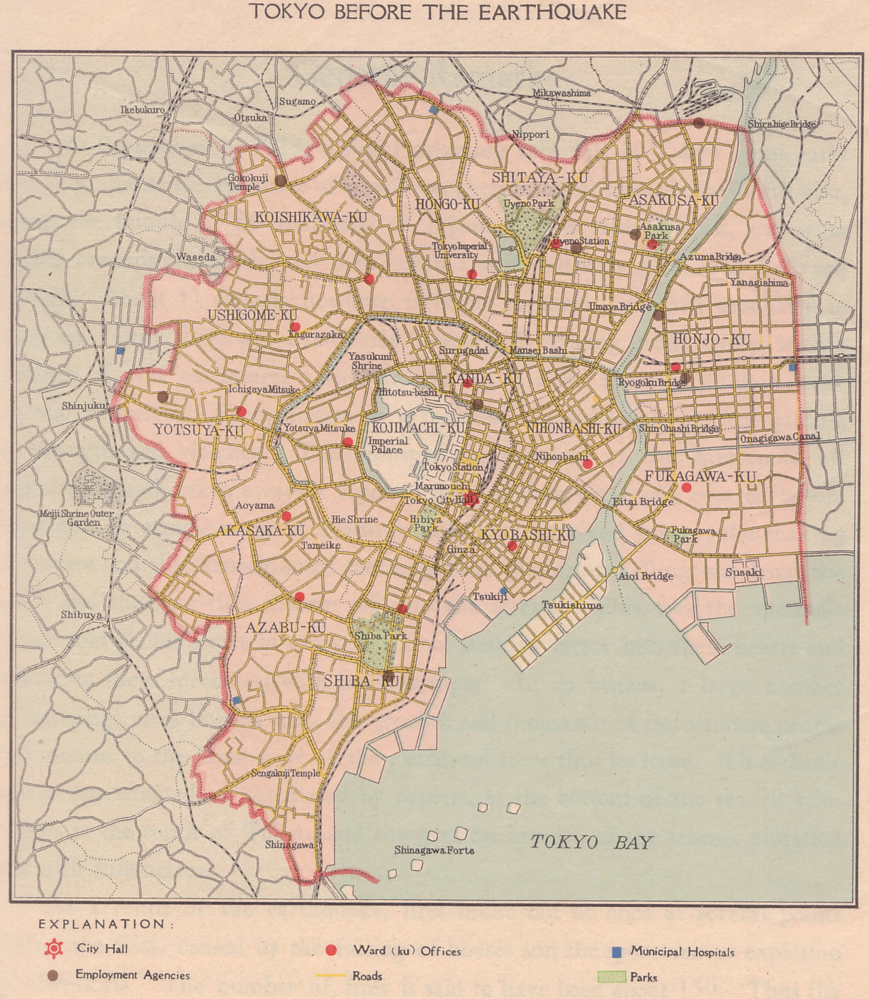 Tokyo before Great Kanto earthquake